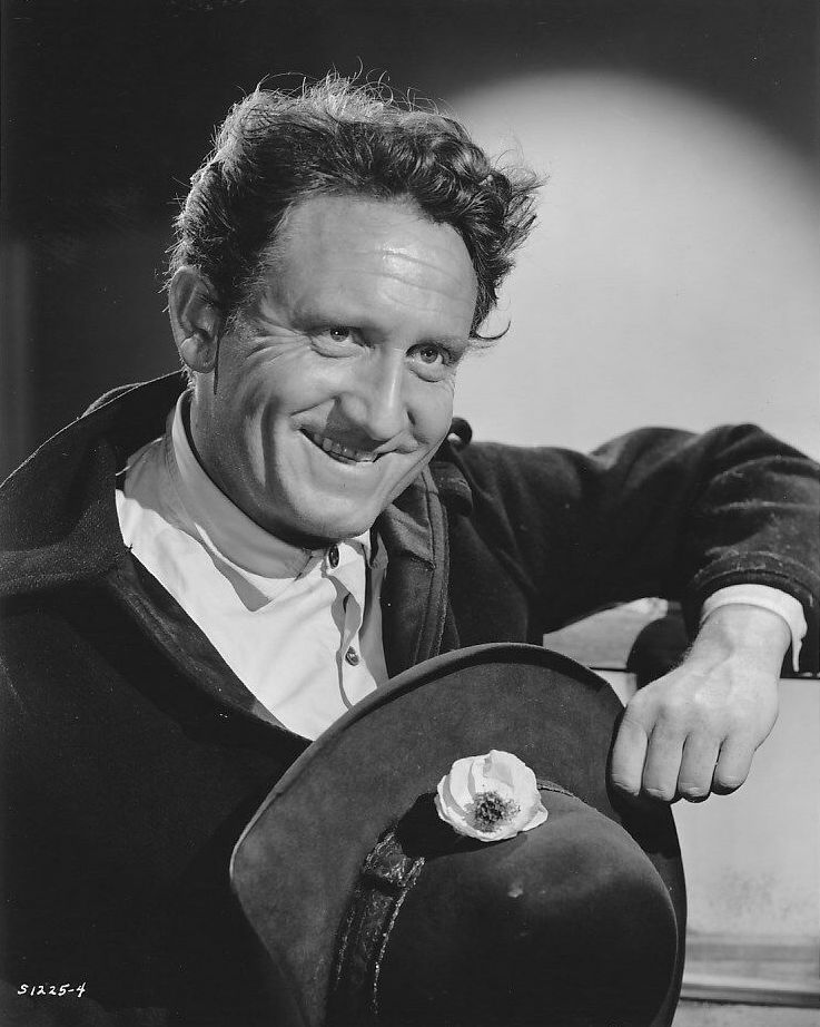 Spencer Tracy's Studio Portrait Photo from the American romantic comedy film Tortilla Flat (1942)